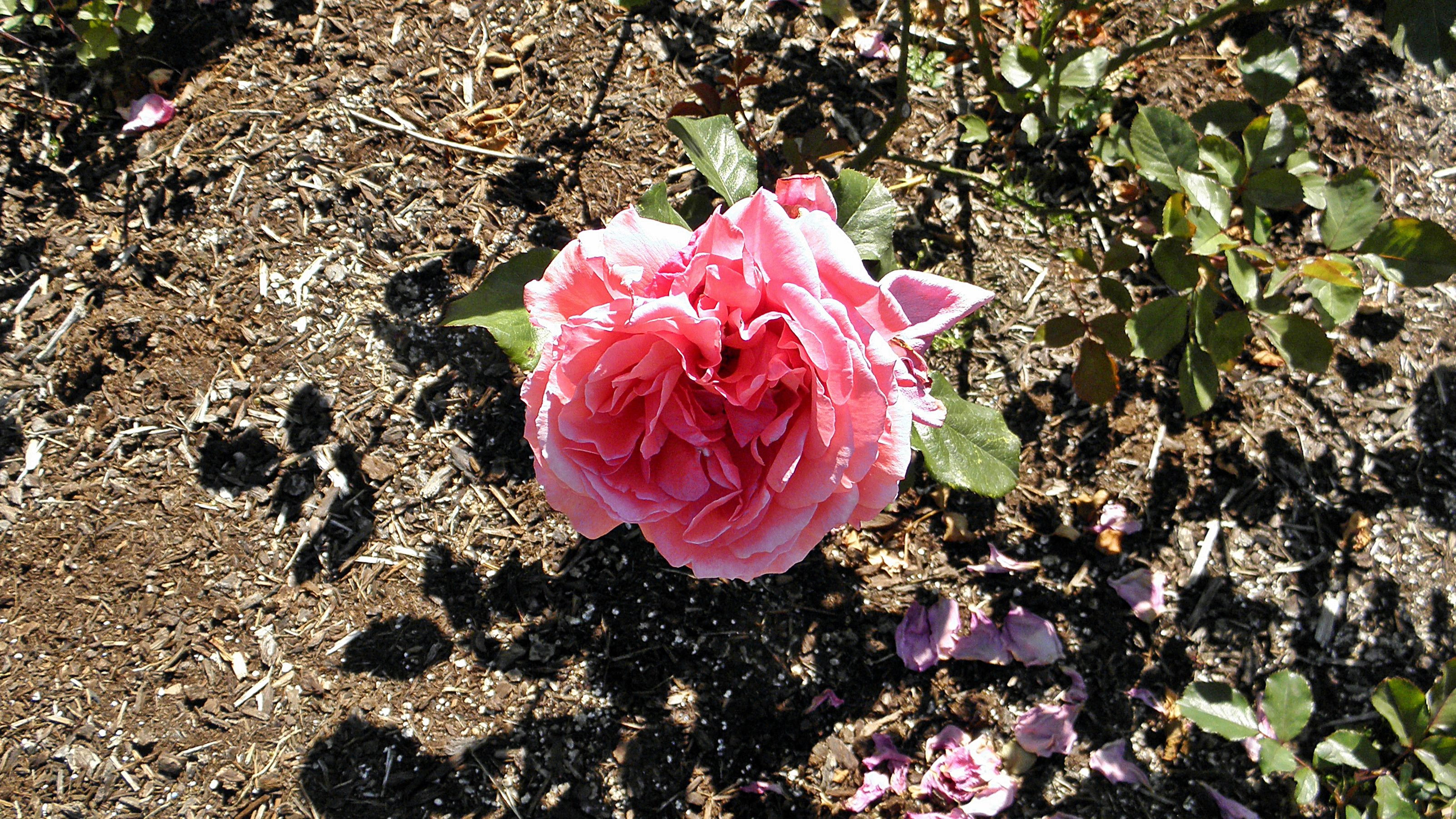 Grandiflora Rose 'Dean Collins'; Bush's Pasture Park Rose Garden, Salem, Or. 97301